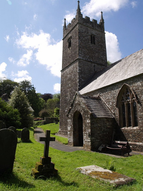 All Saints Church, Bradford. A view of the south side of 489393. Within the porch is a Norman doorway.